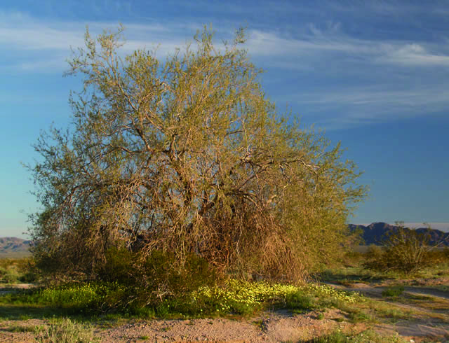 An Ironwood tree (Olneya tesota) casts a distinctive profile against desert, mountains and sky. Colorado Desert, Southern California.